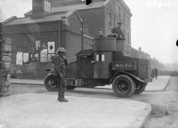 Not a political statement, but words that were chalked on the side of this Austin Armoured Car outside Mounjoy Prison in Dublin during a hunger strike. There were a number of hunger strikes between 1918 and the early 1920s, but we don't yet have an accurate date for this photo. We're hoping you can help, so as always, have at it! One of our Flickr contacts, Vintary, suggested uploading this shot as he had information on it. Thanks to that information below, we now have a secure date for this photo! Date: Monday, 12 April 1920 NLI Ref.: IND_H_0439